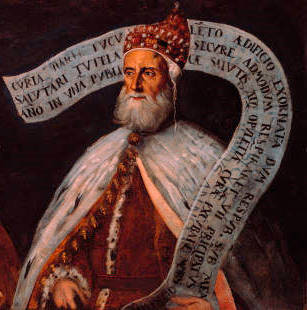 part of a portrait of two doges